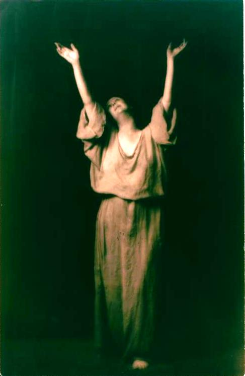 Original photographic studies of Isadora Duncan made in New York during her visits to America in 1915-18.